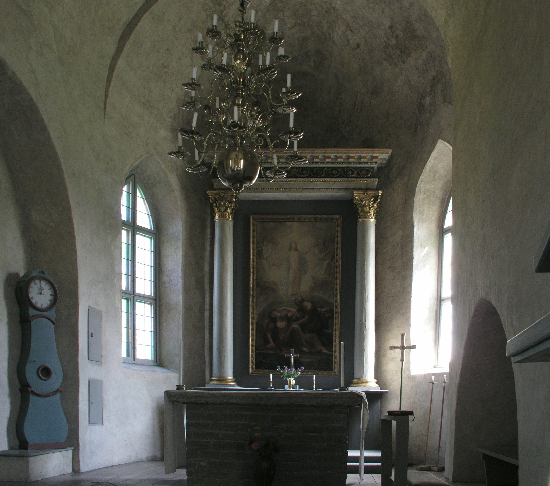 Resmo kyrka/church, Mörbylånga. Altar. The photo was taken by Håkan Svensson (Xauxa) the 2rd of August 2005.